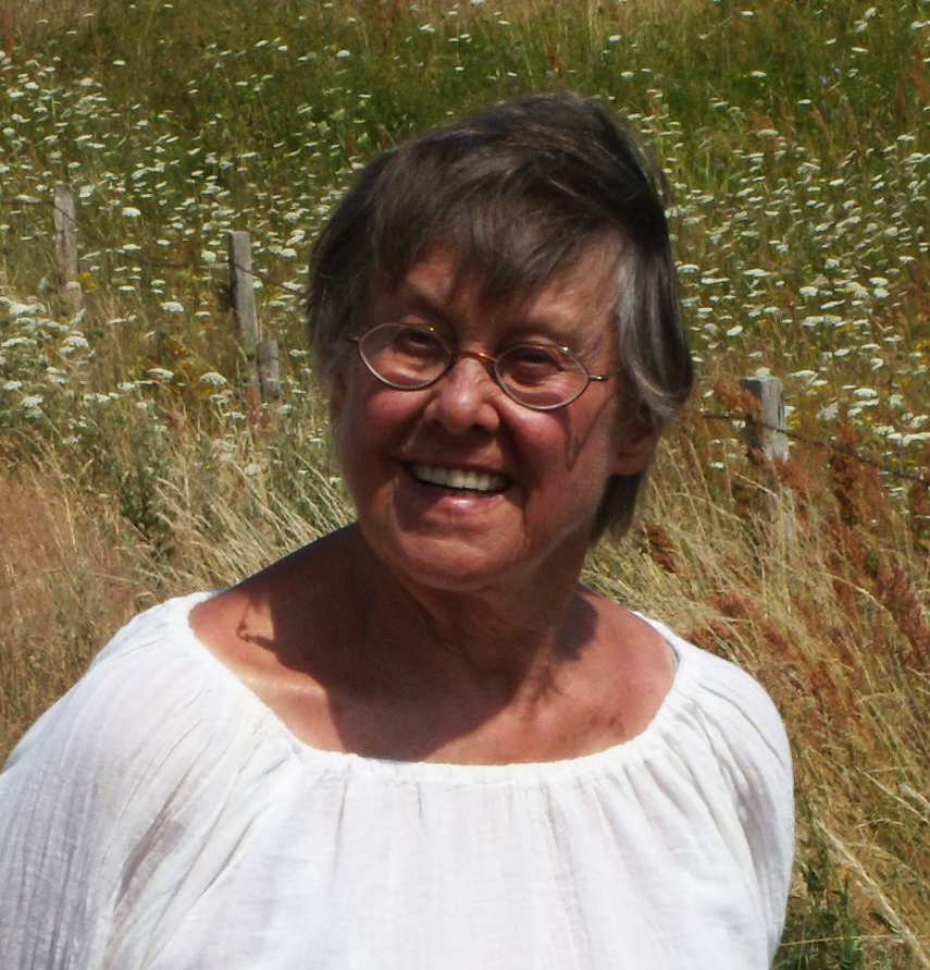 Portrait Jutta Meischner